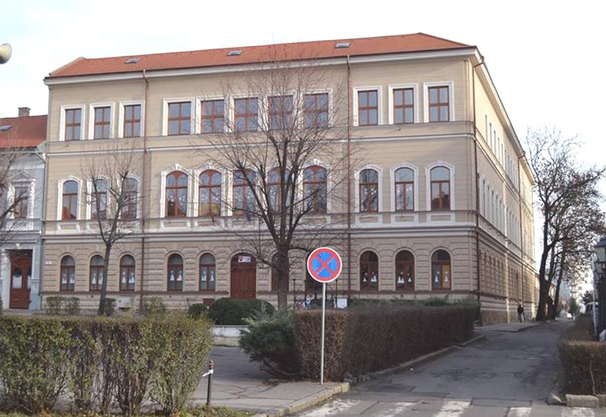 Súkromná základná škola DSA Lučenec